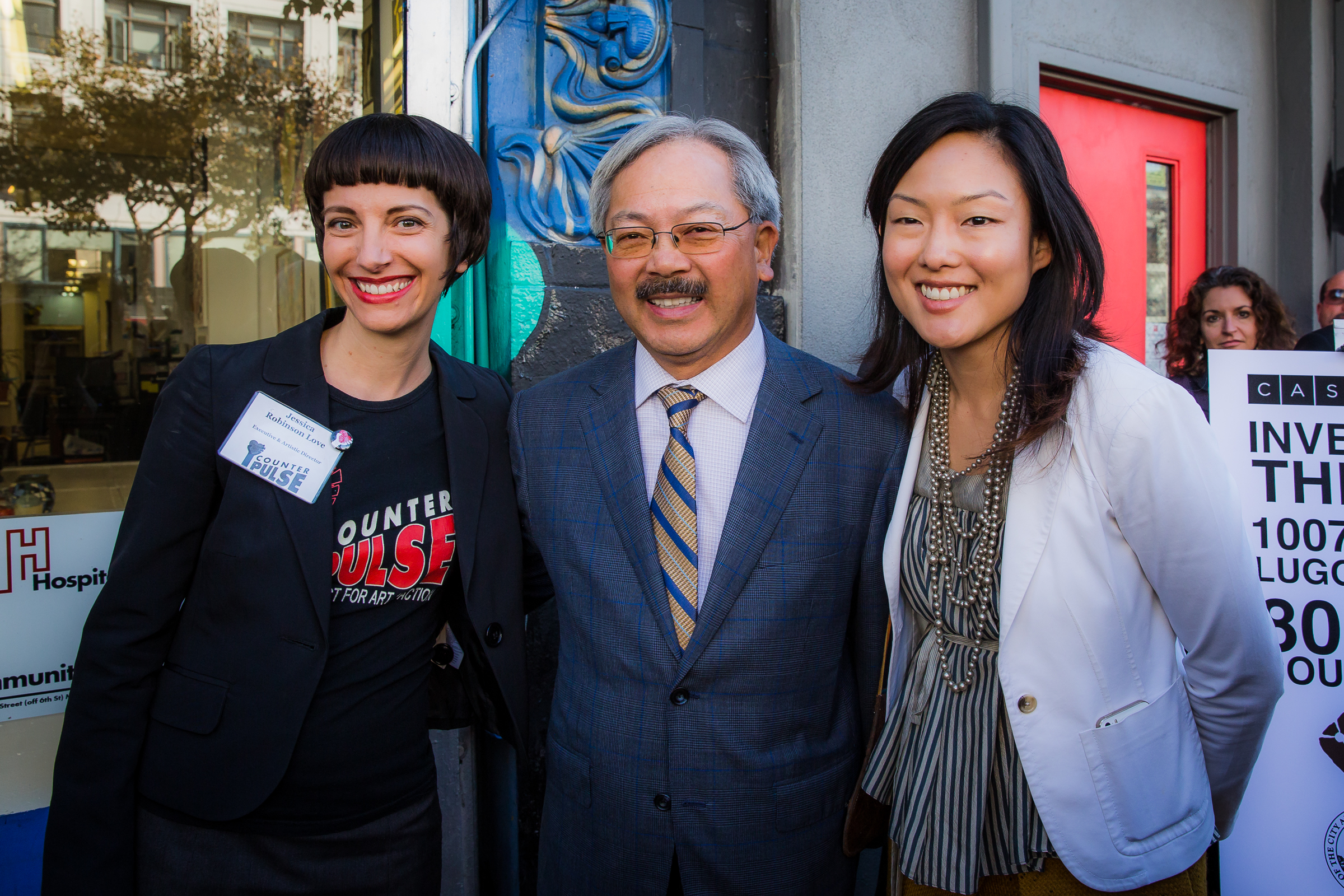 CounterPULSE! Executive Artistic Director Jessica Robinson Love stands with San Francisco Mayor Ed Lee and District 6 Supervisor Jane Kim. Photo by Kegan Marling. CounterPULSE is a non-profit arts venue located at 1310 Mission Street in District 6 of San Francisco.